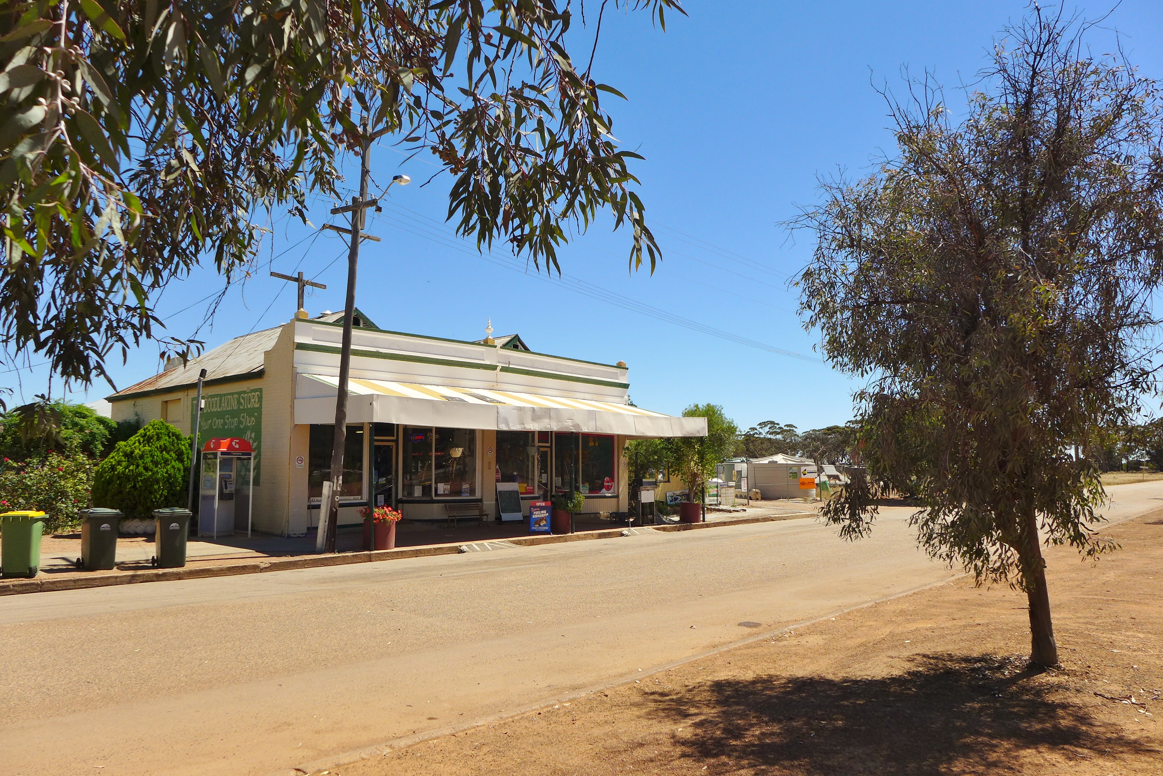 View of the Doodlakine Store, Station Street, Doodlakine, Western Australia.